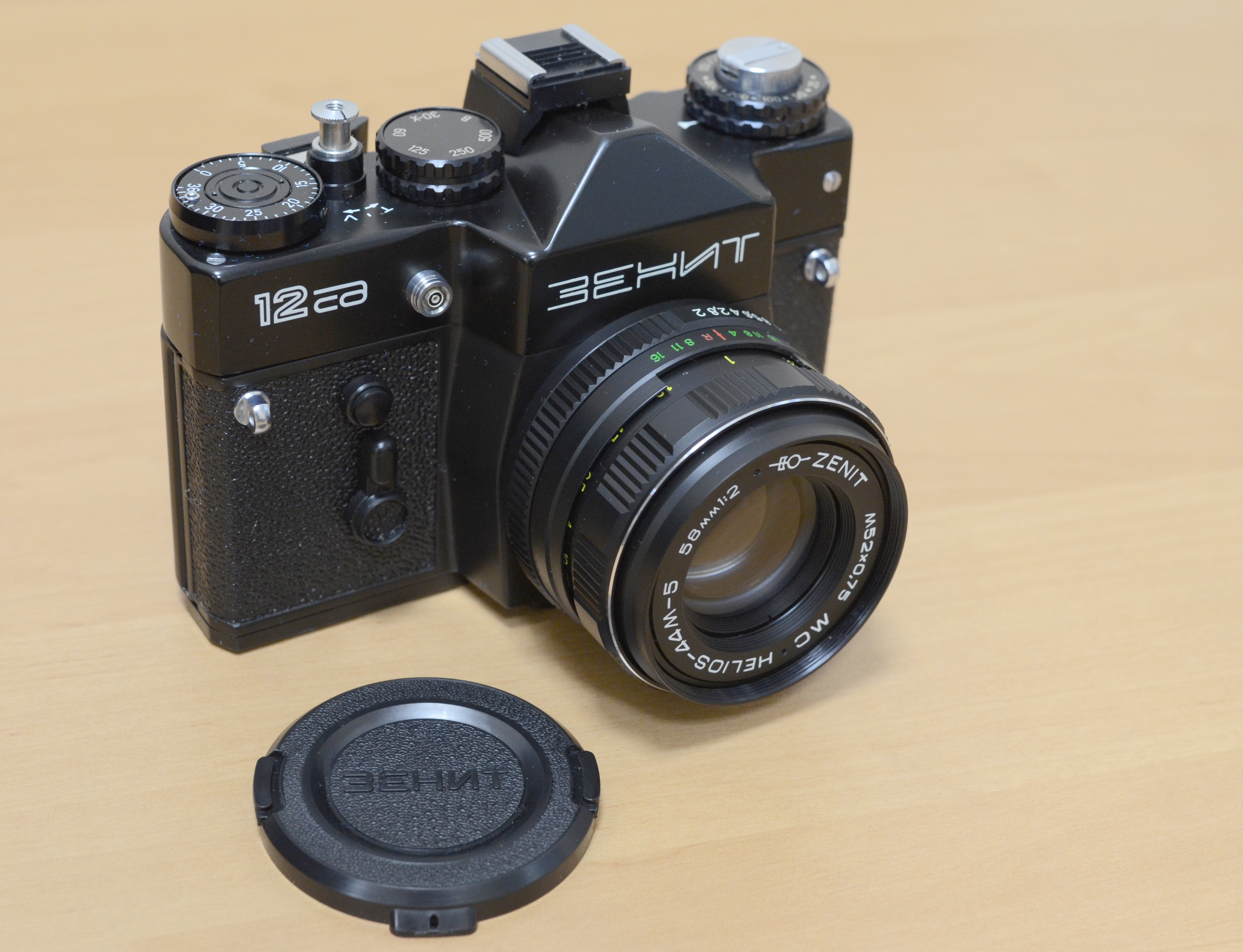 ZENIT 12SD (XP) camera, manufactured on May 27 1991 in USSR on Krasnogorsk plant, serial number 91023463, lens serial number 91189821